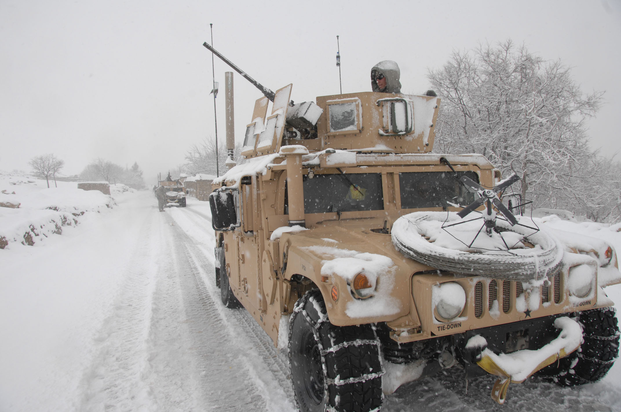 U.S. Army Sgt. Joseph Chmielewski, from Bravo Company, Division Special Troops Battalion, Task Force Gladius, pulls security during a key leader engagement at the Jalokheyl village on main supply route Vermont in the Kapisa province of Afghanistan Feb. 5, 2008. (U.S. Army photo by Sgt. Johnny R. Aragon) ( [1]